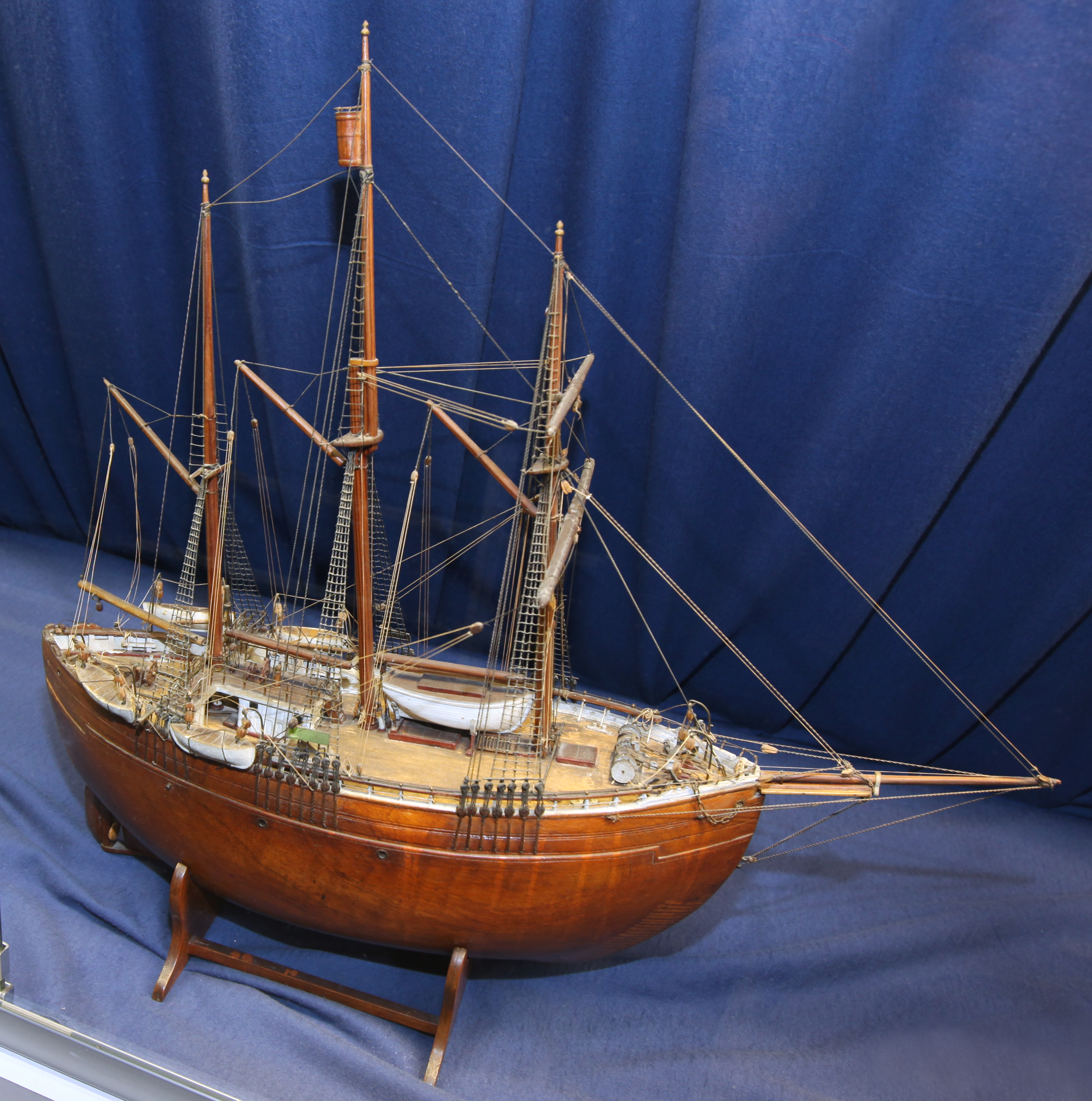 Pre construction model of the Fram at the Fram Museum, Oslo, Norway.